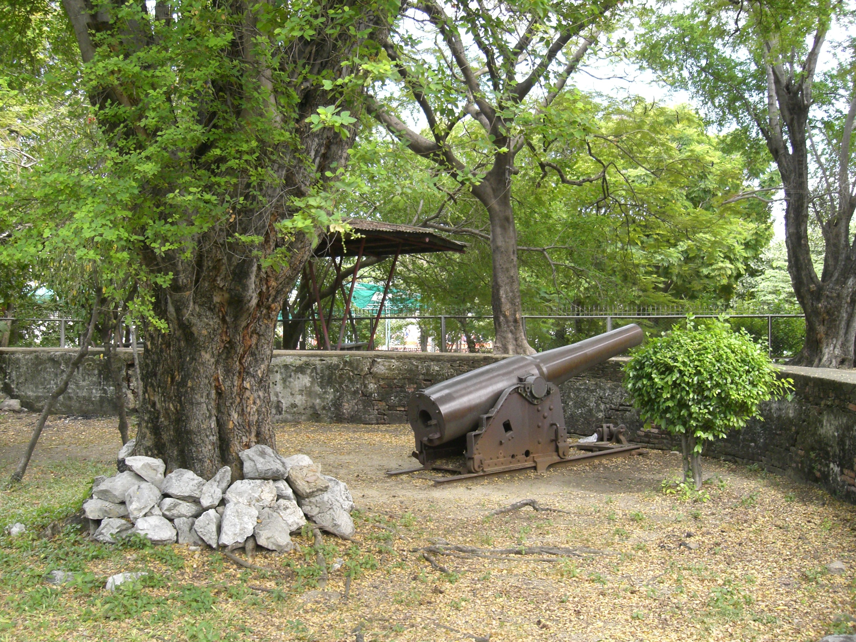 Fort Pom Phlaeng Faifa in Phra Pradaeng, Thailand